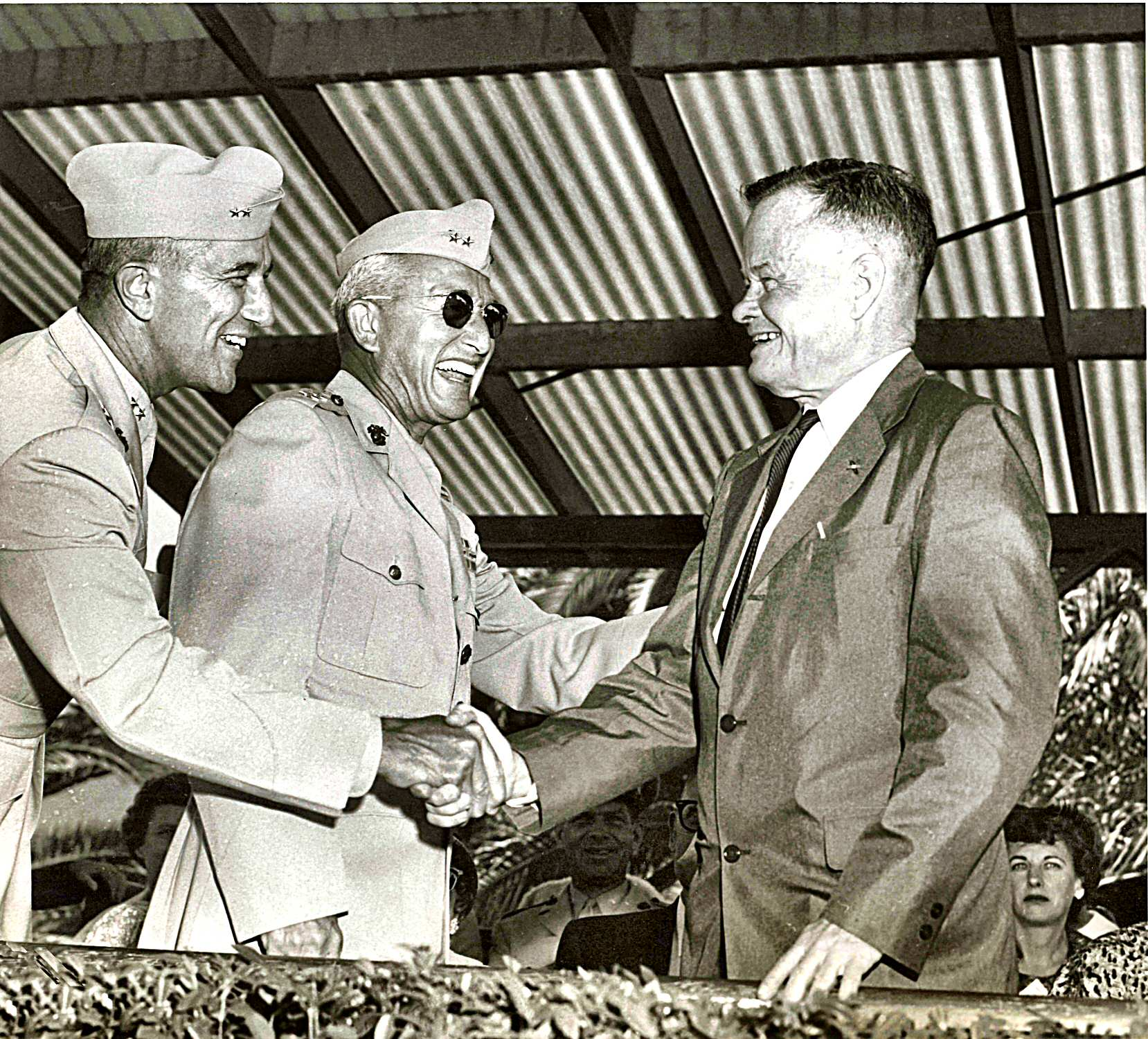 MajGen James M. Masters Sr. (center) and MajGen Herman Nickerson welcome 'Chesty' Puller to Camp Pendleton, 1962. At the time, Masters was base commander and Nickerson was 1stMarDiv commander. Puller had retired in 1955, for health reasons.